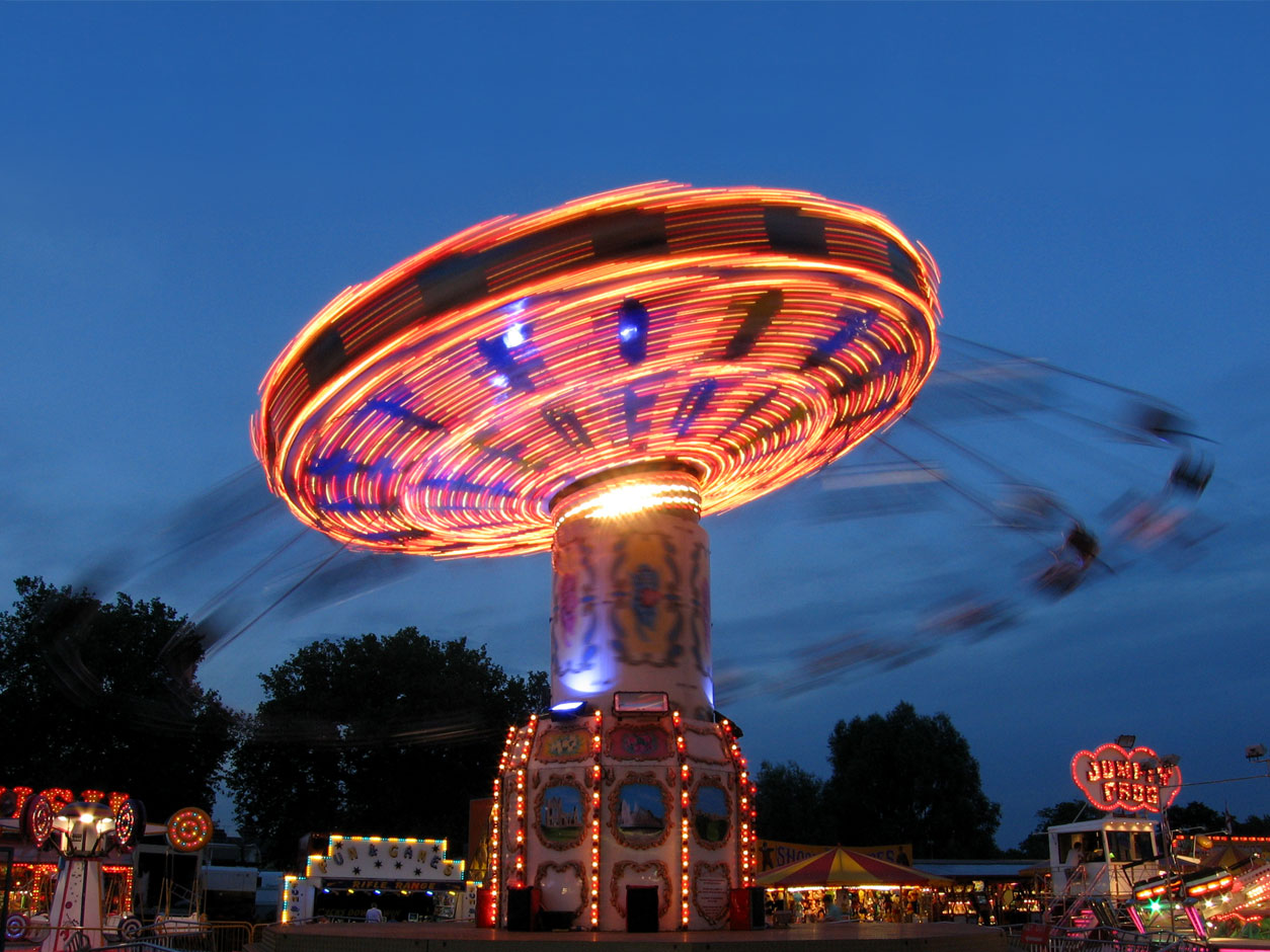 Chair-O-Planes at night. Cambridge Midsummer Fair 2005. Chair-O-Planes ride (or Swing Carousel) operated by Brandon Bishton. Keywords: Chair-O-Planes, lights, Funfair, fairground